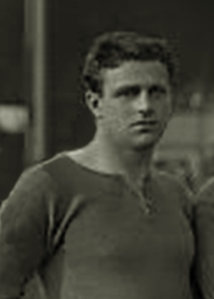 Fred Taylor - Chelsea FC - Cropped from 1913/14 unmarked postcard.